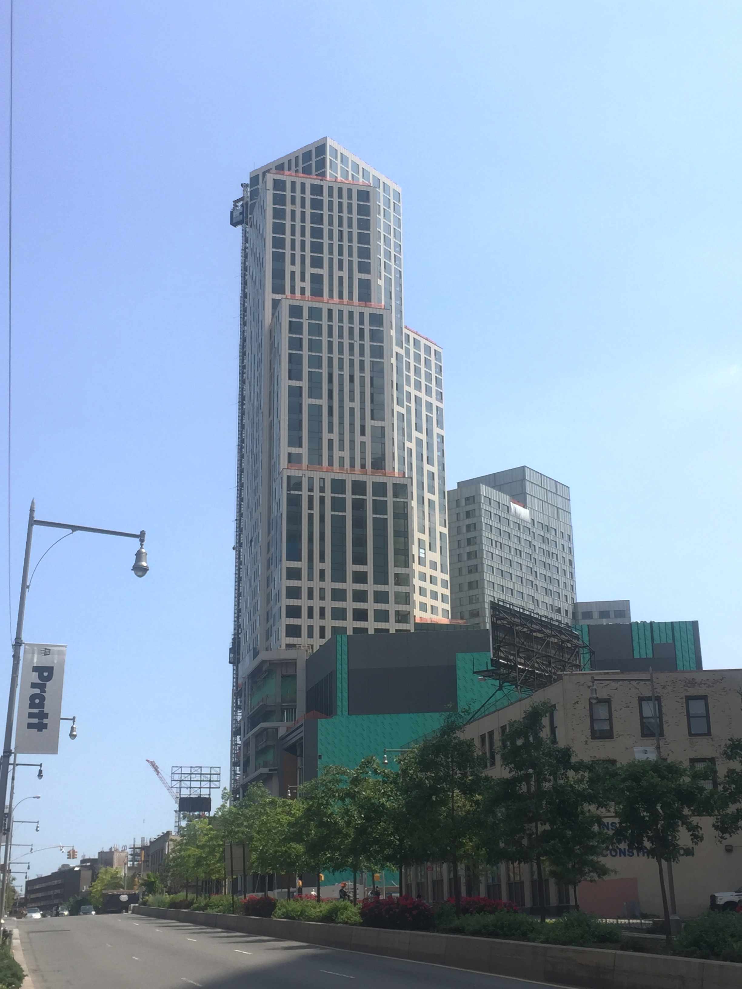 City Point Tower II is a 30-story high-rise residential building between the Downtown Brooklyn and Fort Greene areas of Brooklyn in New York City, New York; completed in 2015. Photographed by Justin A. Wilcox of Washington, D.C. on June 10, 2015.